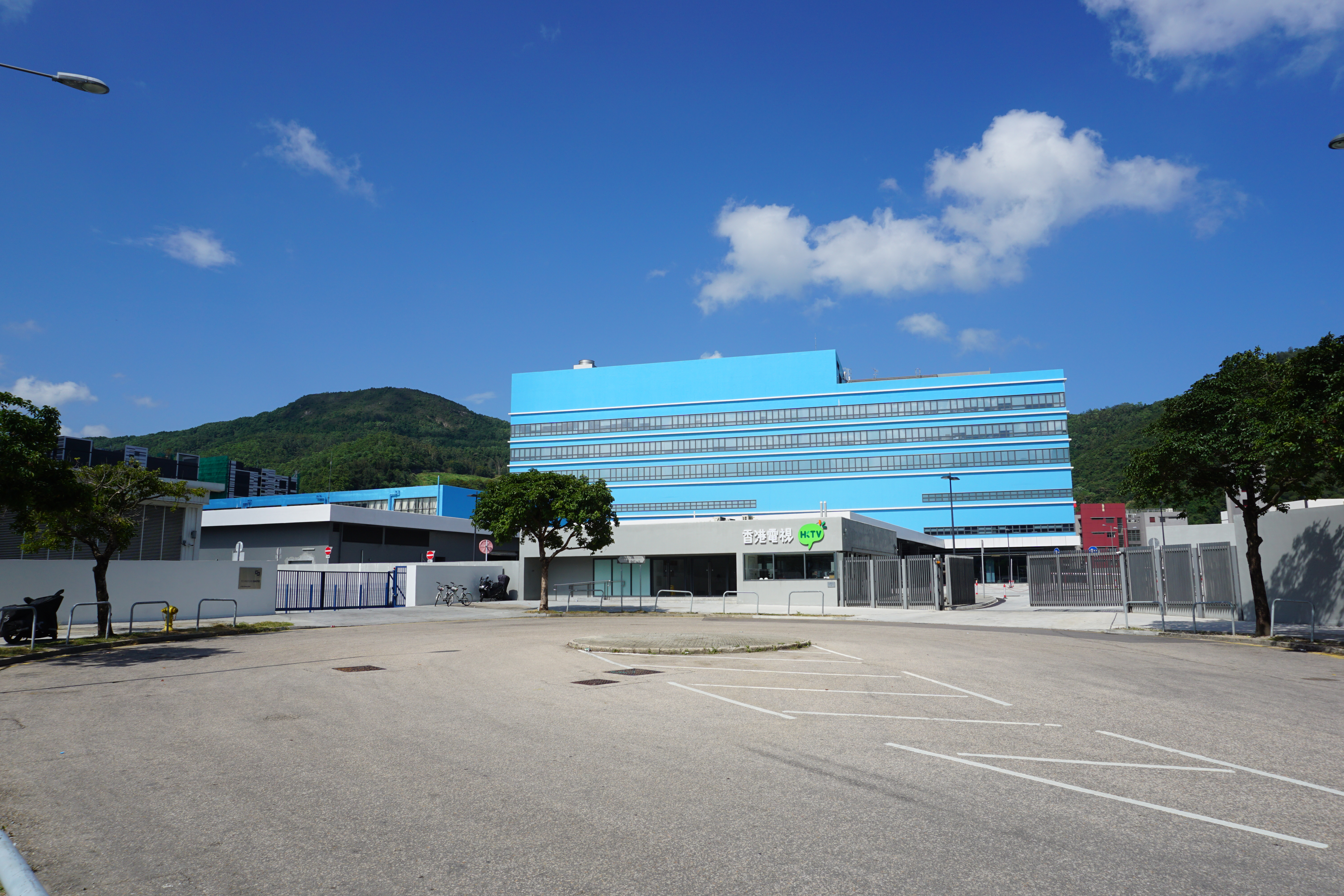 HKTV Multimedia and Ecommerce Centre in Siu Chik Sha, Hong Kong.